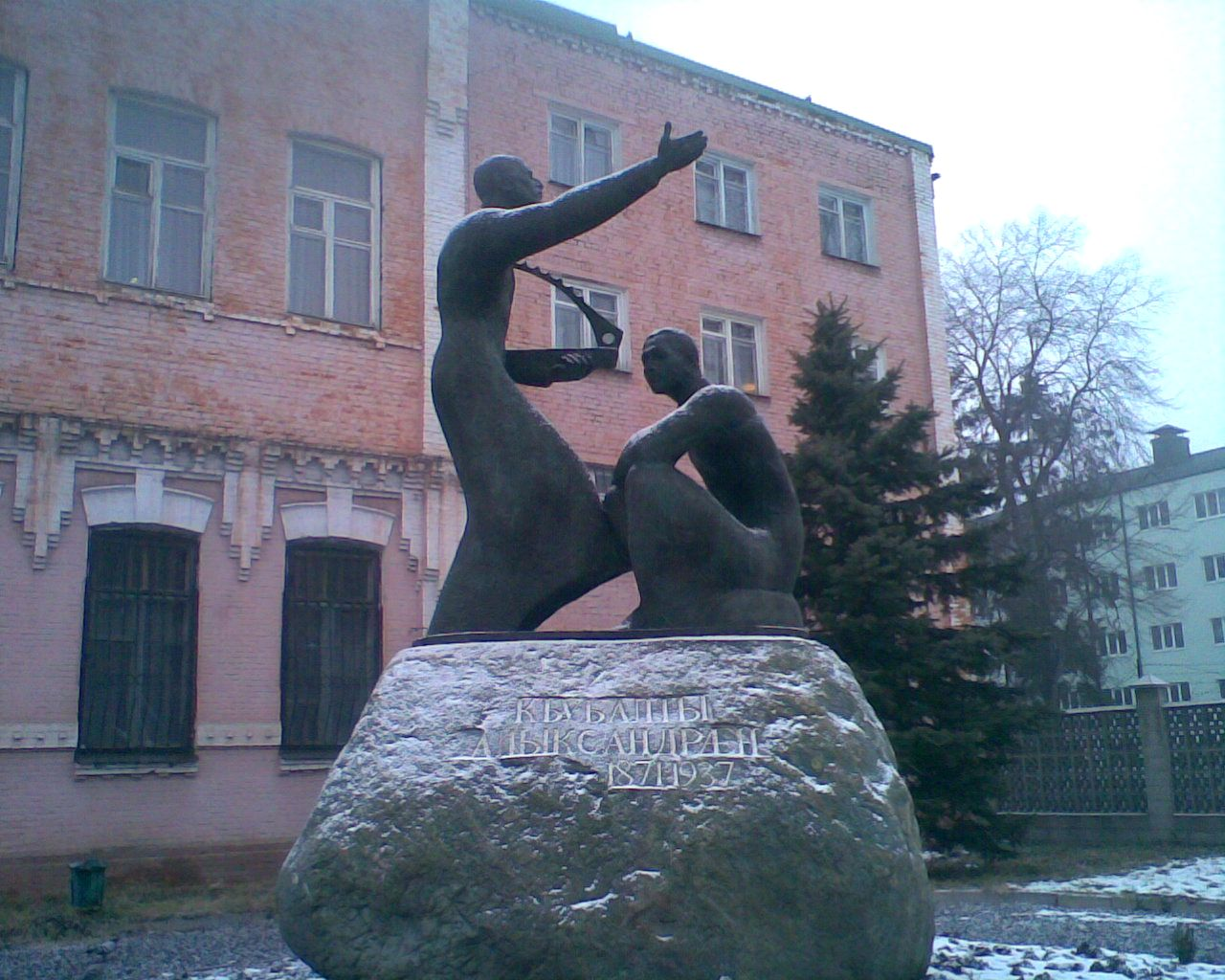 Monument to Alexander Kubalov (K'ubalty), lawyer, poet and writer.